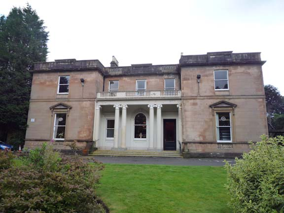 Kilmardinny House